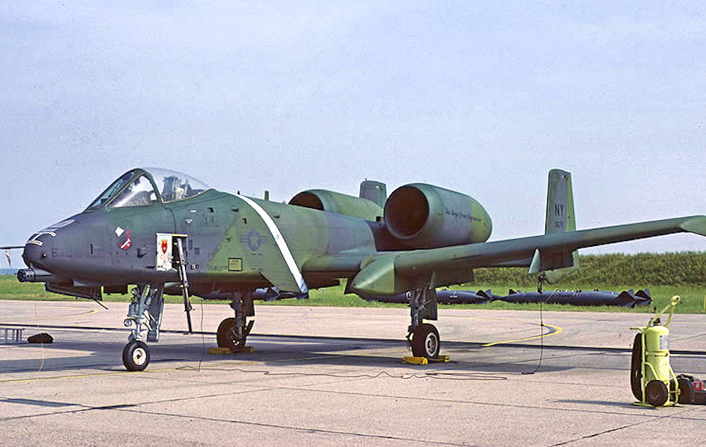 138th Tactical Fighter Squadron - Fairchild Republic A-10A Thunderbolt II 78-0670 Retired to AMARC as AC0497 Oct 22, 2007. Still at AMARC Jan 15, 2008. Left AMARC for 358th FS Mar 2008